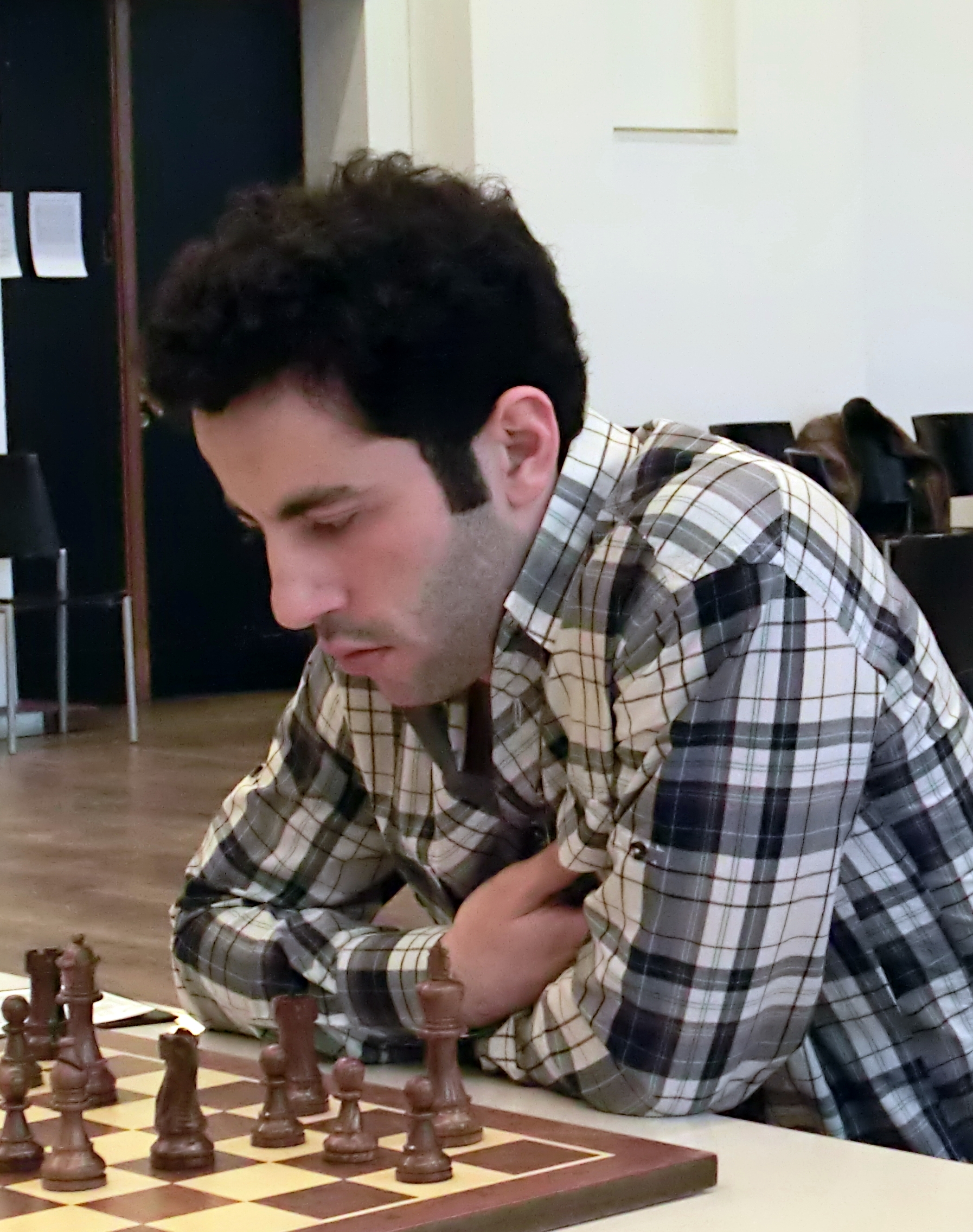 Hrant Melkhumyan, chess grandmaster from Armenia